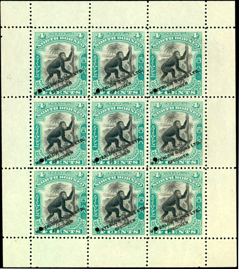 North Borneo 4c 1897-1902 Waterlow printer's sample stamps sheetlet.